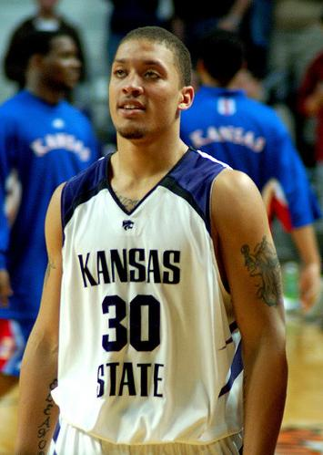 Michael Beasley playing for Kansas State against Kansas.